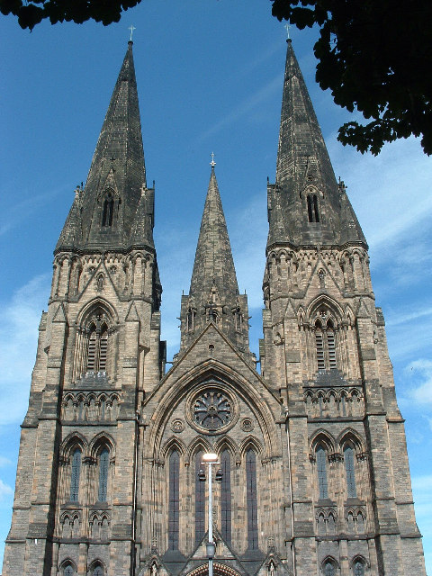 St Mary's Cathedral, Edinburgh. The west facade.